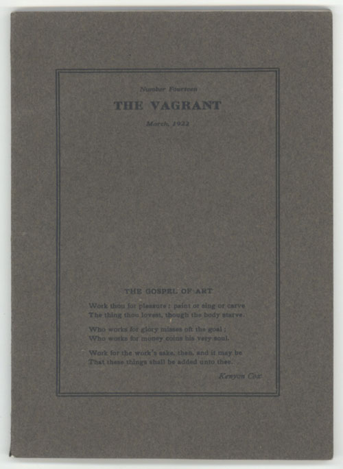 Cover of "The Vagrant", March 1922